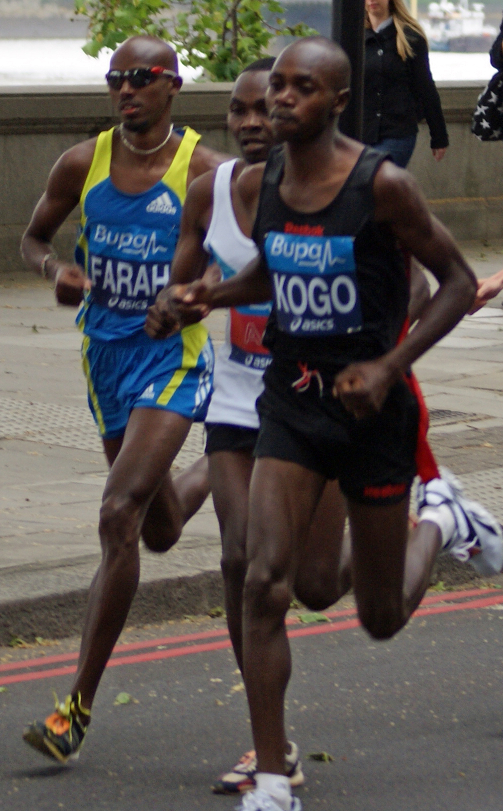 This photo was taken by Julian Mason on Monday 31st May 2010 just past the 9km point of the 2010 Bupa London 10k Run.